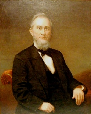 Portrait of Tennessee Governor Alvin Hawkins